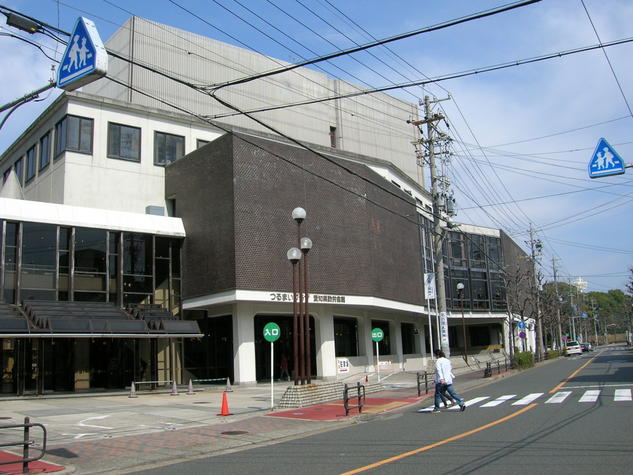 Aichi-ken Kinro Kaikan - Aichi prefectural labor hall (Tsurumai plaza). Loc: Showa-ku, Nagoya city, Aichi Prefecture, Japan. 愛知県勤労会館（つるまいプラザ） 撮影場所 愛知県名古屋市